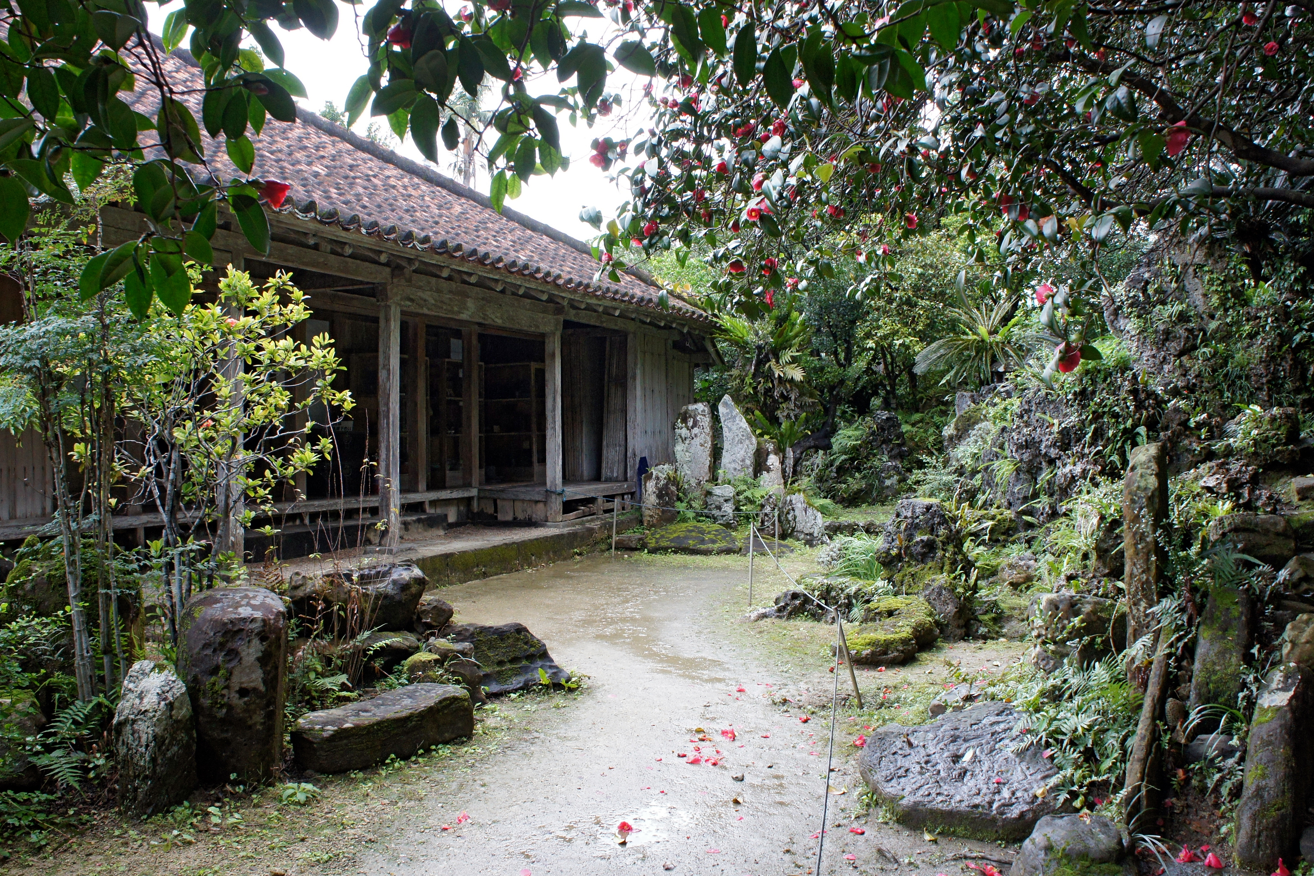 Miyara-dunchi in Ishigaki Island, Ishigaki City, Okinawa Prefecture, Japan.